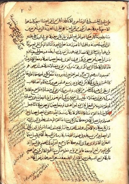 The oldest copies of the second volume of "Canon Of Medicine" (1030) by Abu Ali Ibn Sina, known in the West as Avicenna (980-1037). Institute of Manuscripts of Azerbaijan National Academy of Sciences.